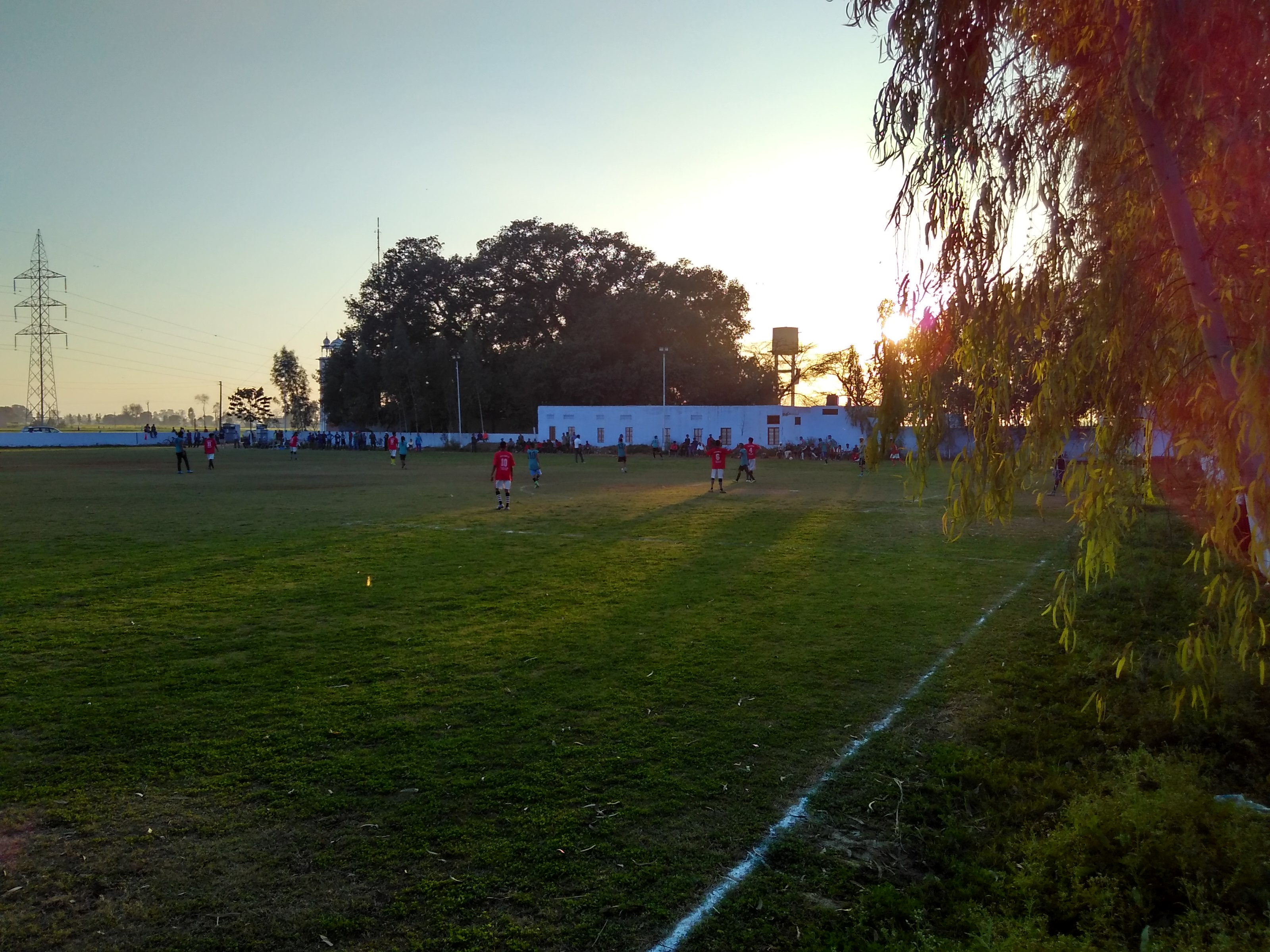 ਟੂਰਨਾਮੈਂਟ ਪਿੰਡ ਮੇਹਟਾਂ